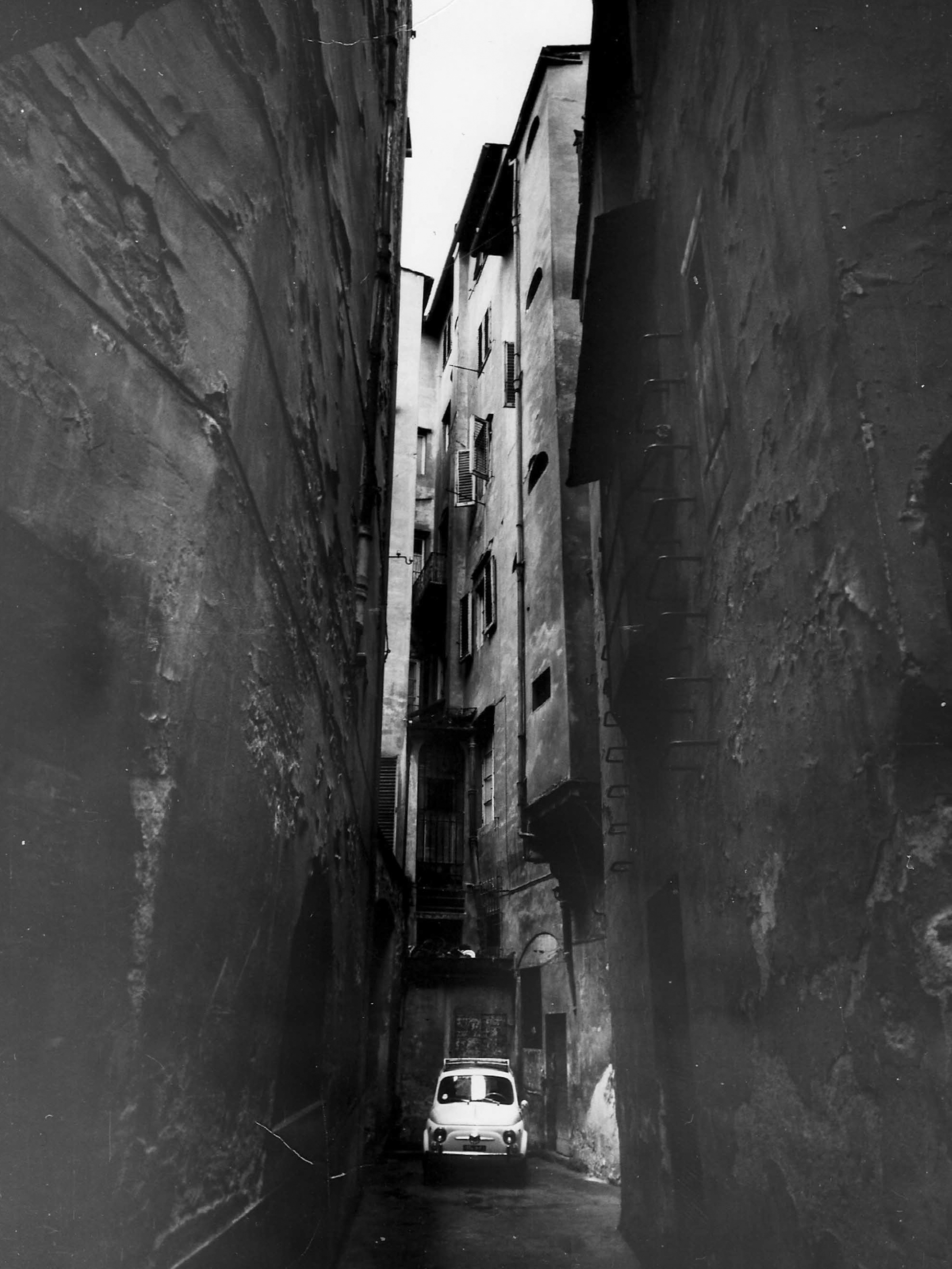 Hotel Laurus al Duomo courtyard